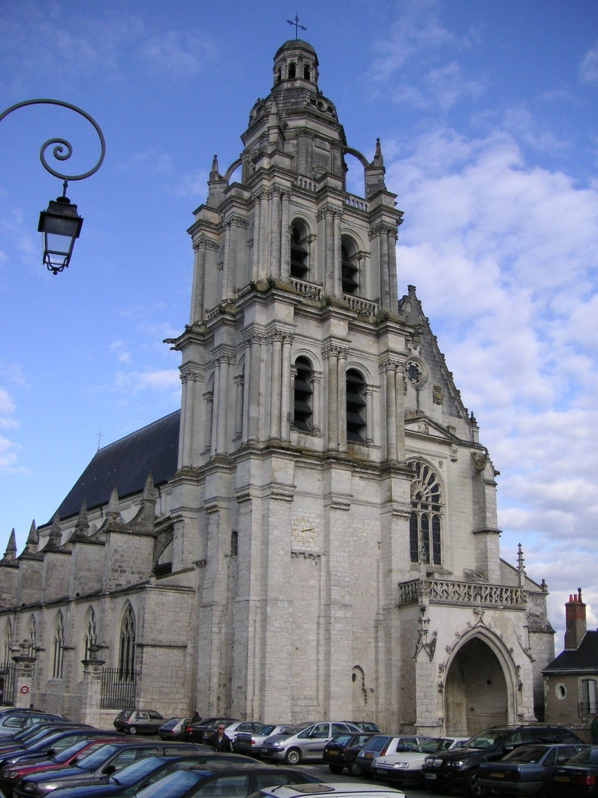 France, Blois Cathedral.